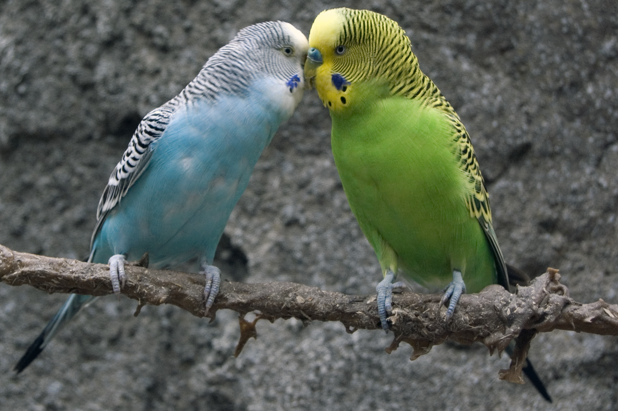 Two budgerigar at Henry Doorly Zoo, USA.